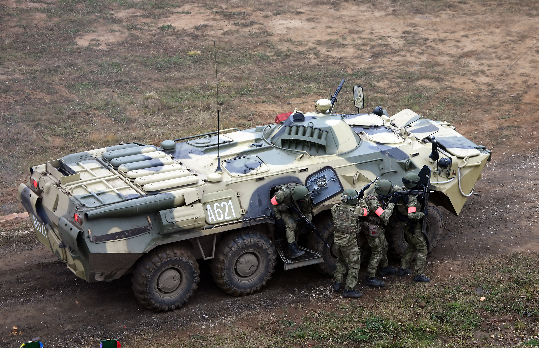 Operators from 604th Special Purpose Center of Internal troops assaulted the building